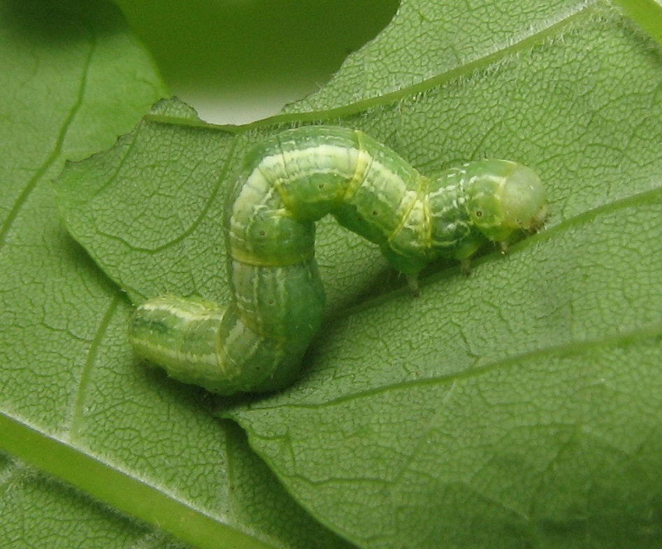 Geometrid moth, Alsophila pometaria (Fall Cankerworm - Hodges#6258) caterpillar, on ash tree (Fraxinus pennsylvanica). Size: ~ 10 mm. Briar Bush Nature Center, Montgomery County, Pennsylvania, USA.